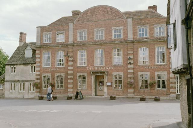 The Red Lion inn, Lacock. This inn was given its fine red brick facade in the 1730s. The building, along with many in the village, has featured in film and TV costume dramas including Tom Brown's Schooldays. Much of the village, including the Abbey, belongs to the National Trust.